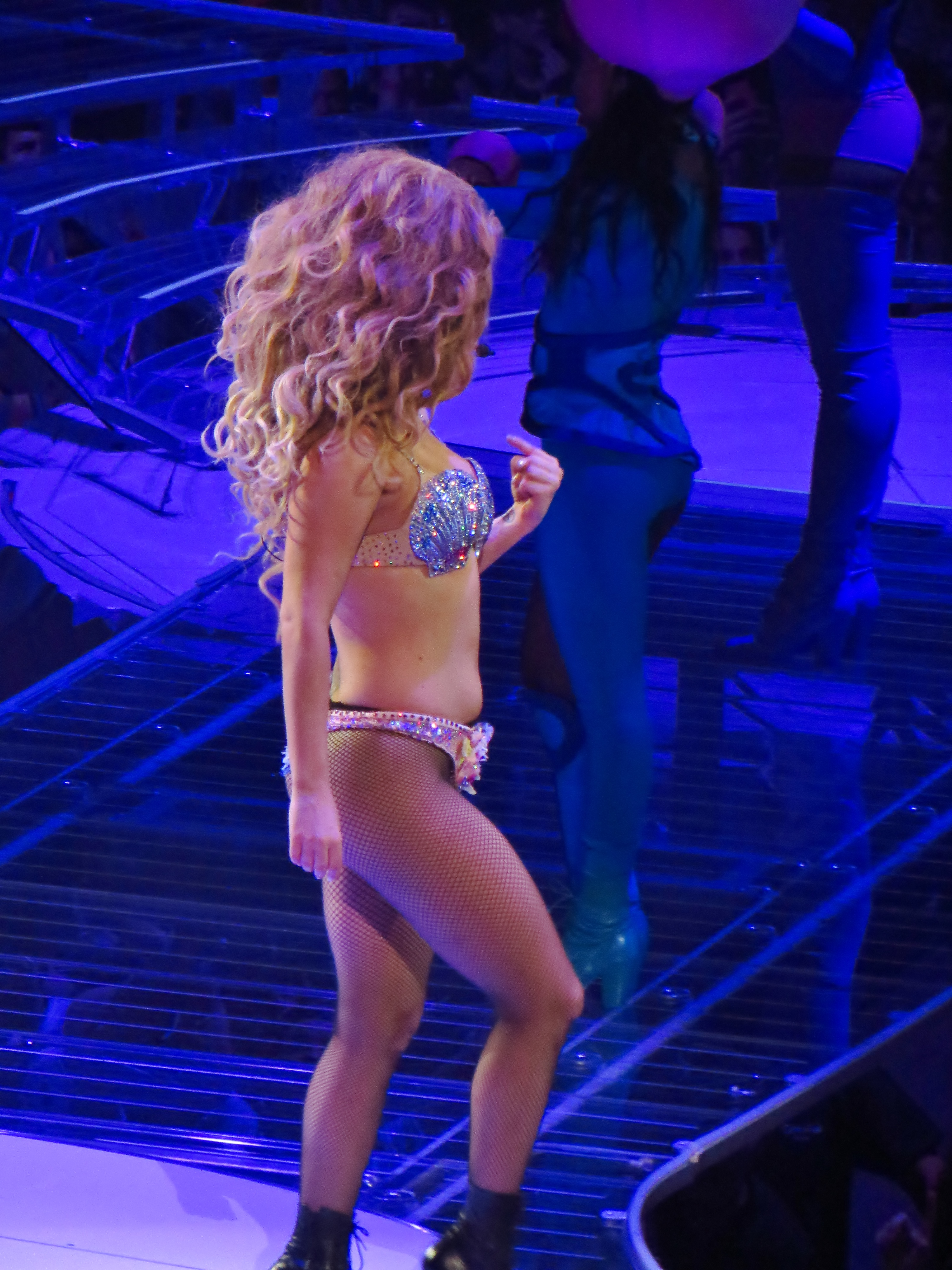 Lady Gaga, ARTPOP Ball Tour, Bell Center, Montréal, 2 July 2014 (18) Gaga performing on ArtRave: The Artpop Ball tour